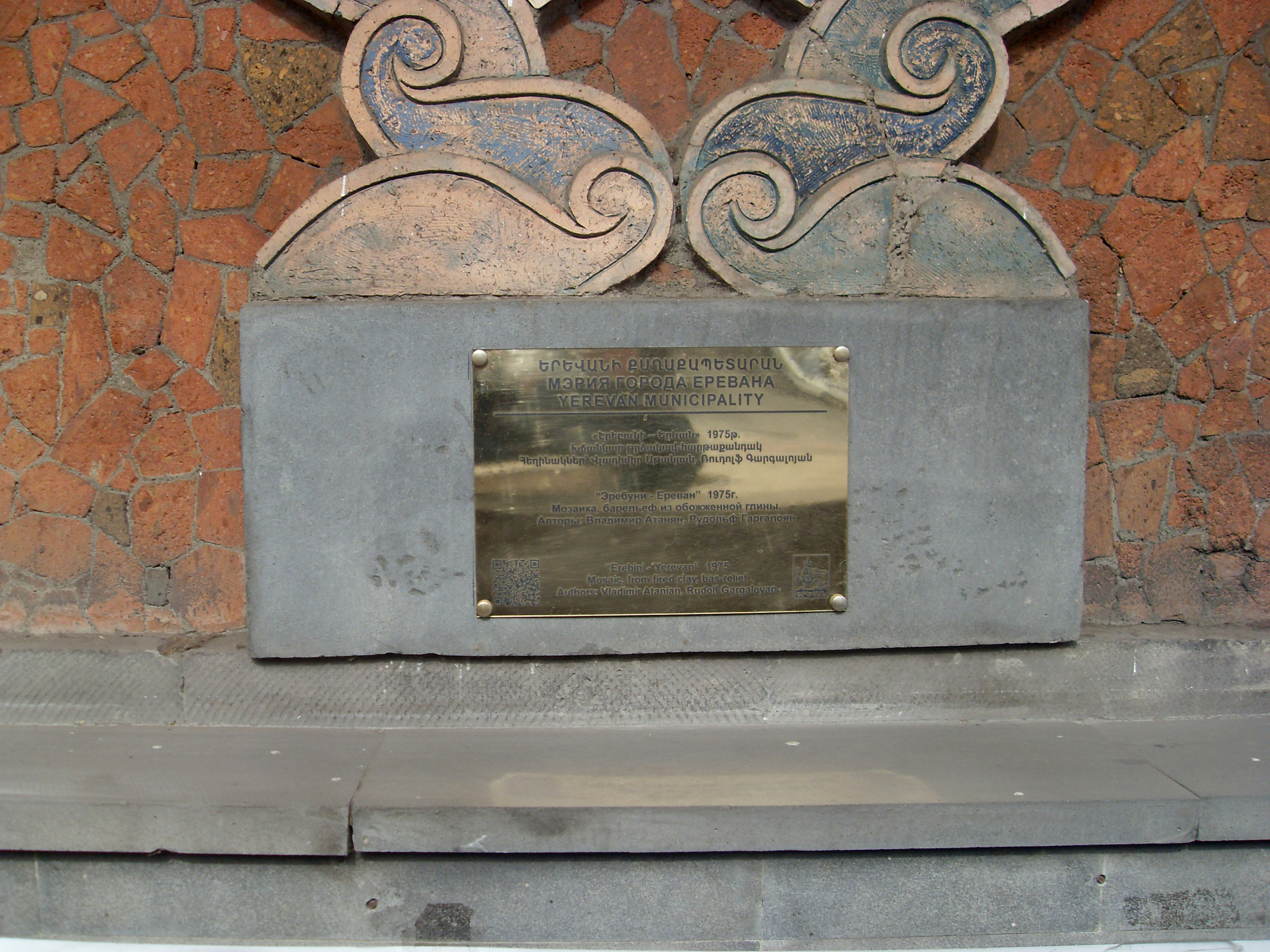 Erebuni-Yerevan, mosaic, bas-relief, Yerevan, 15 Mashtots ave., on building wall, 1975